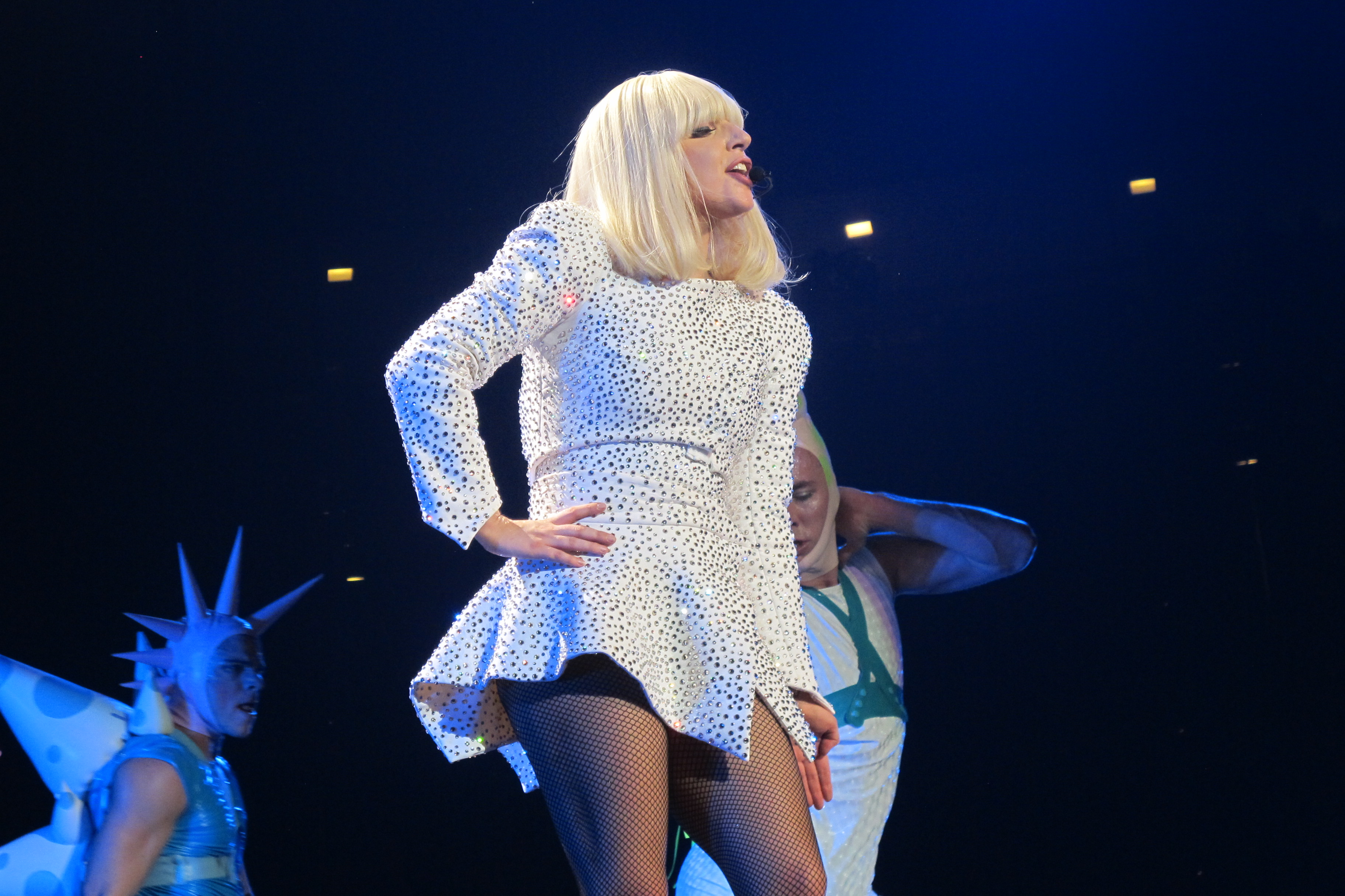 IMG_8248 Lady Gaga performing at ArtRave: The Artpop Ball of San Diego